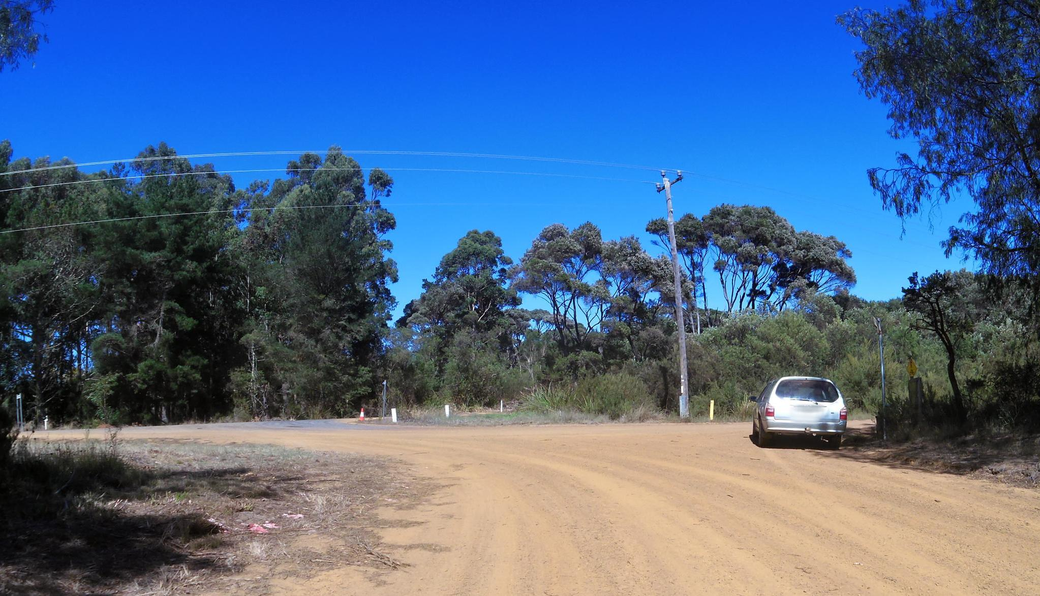 Kronkup WA – Railway Road close to Lower Denkmark Road